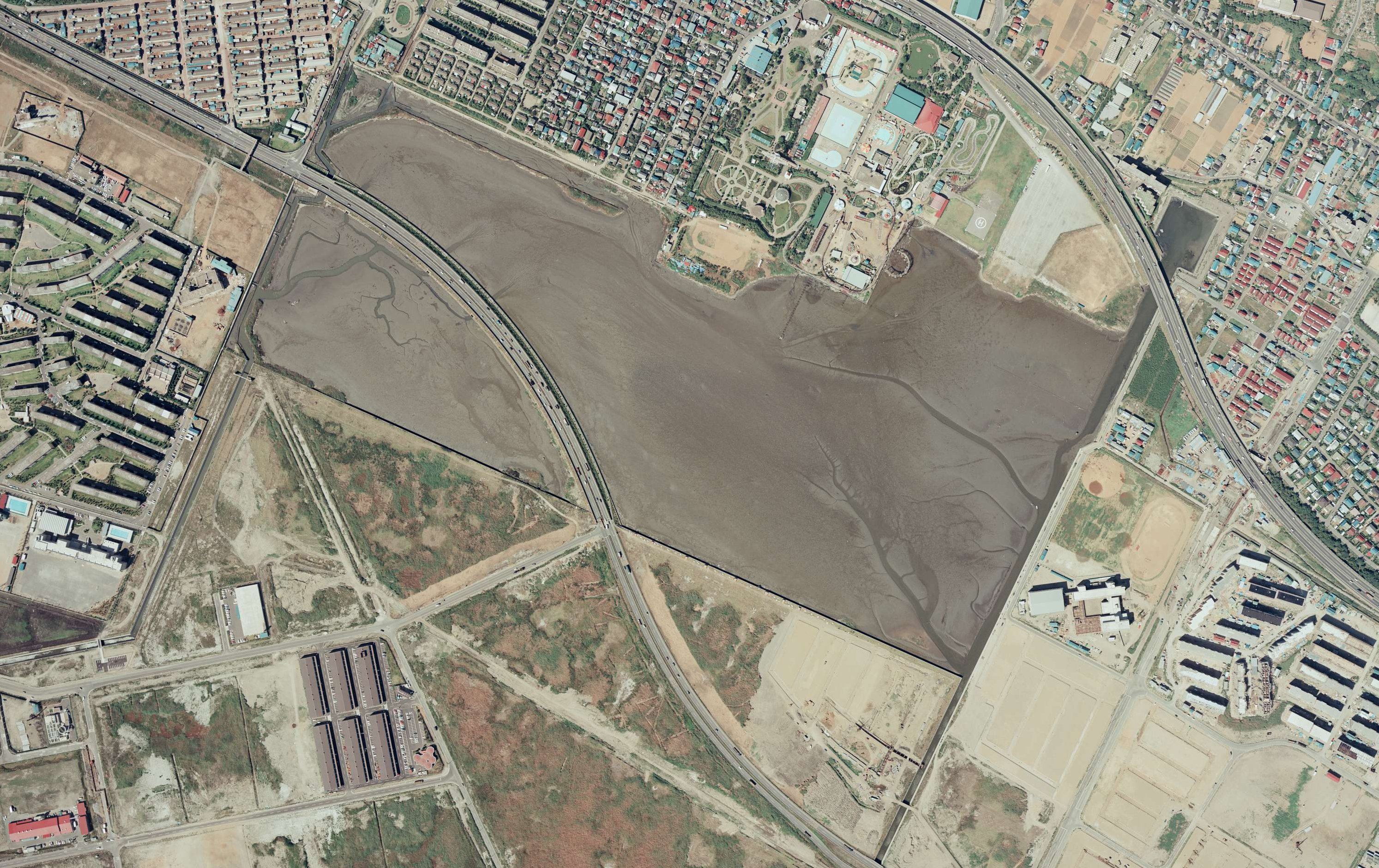 Around Yatsu-Higata taken in 1979